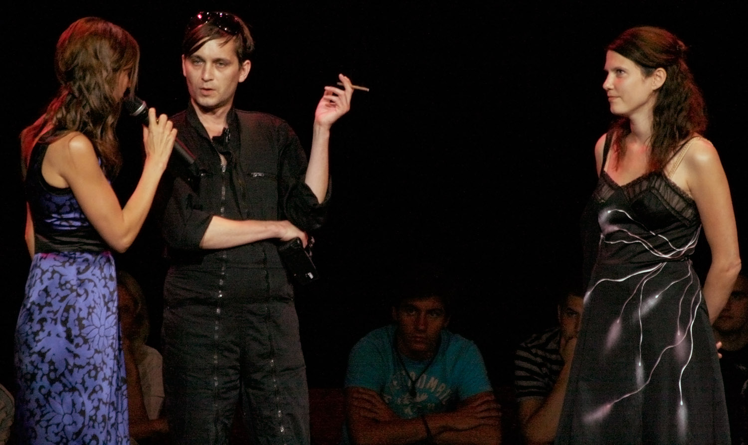 Helen Evans und Heiko Hansen, winners of the 'Golden Nica' in the category 'Hybrid Art' of the Prix Ars Electronica 2008, with presenter Doris Schretzmayer (Brucknerhaus, Linz).